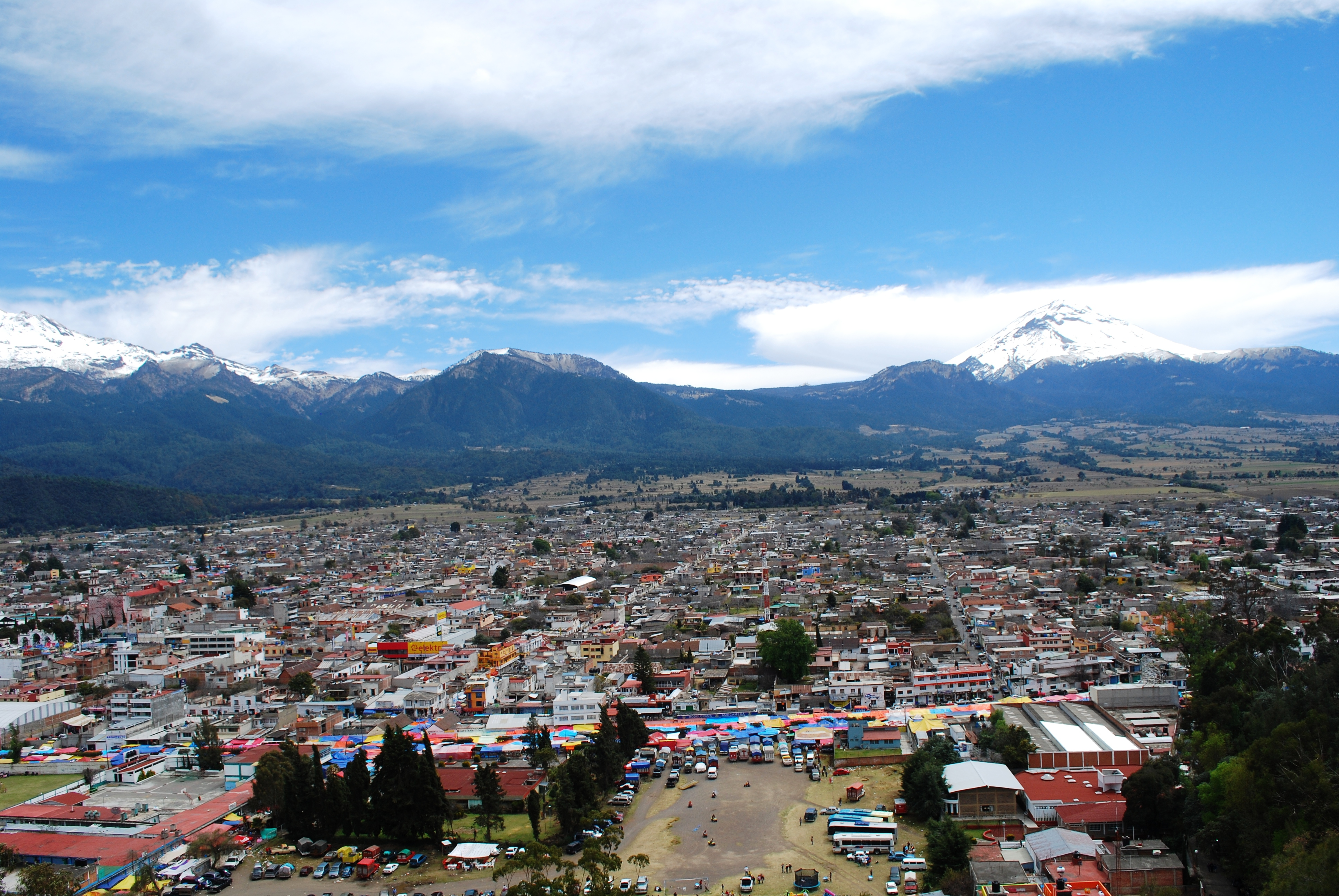 view of Amecameca with Iztaccihuatl and Popocatepetl in the background